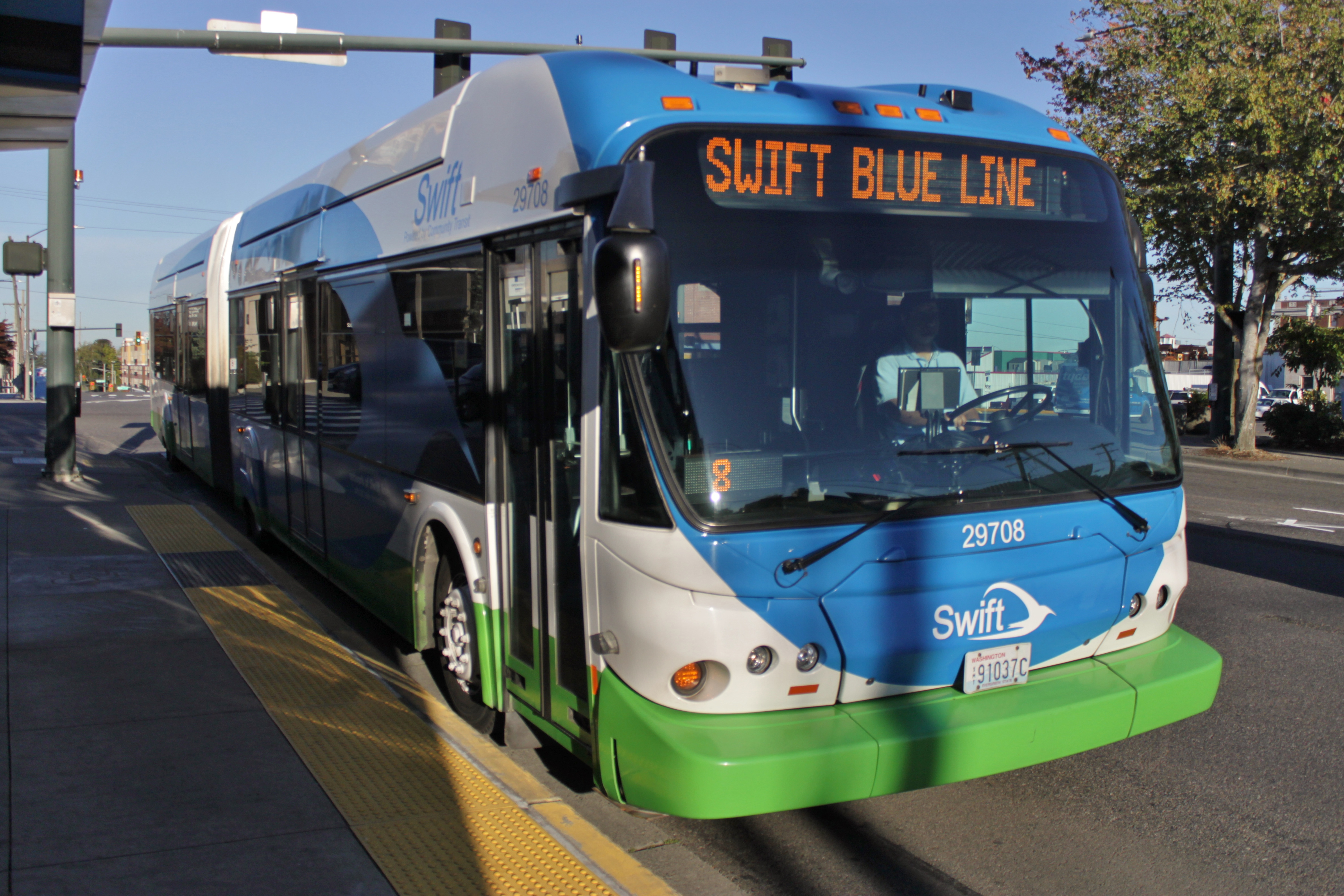 A New Flyer DE60LFA bus on the Swift Blue Line, a bus rapid transit line operated by Community Transit, in Everett, Washington, shortly after being re-designated as the "Blue Line".